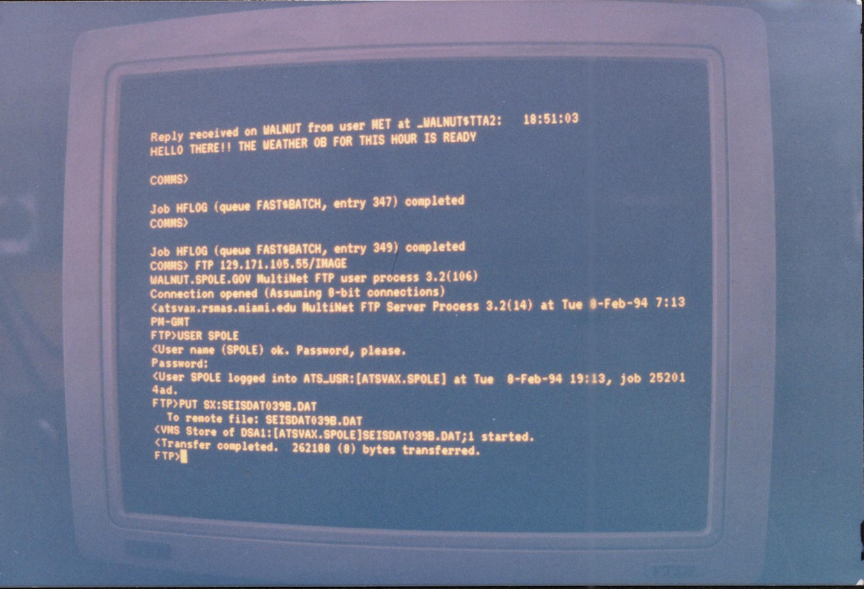 Photo screenshot of the first FTP transfer from the Amundsen-Scott research base at the south pole